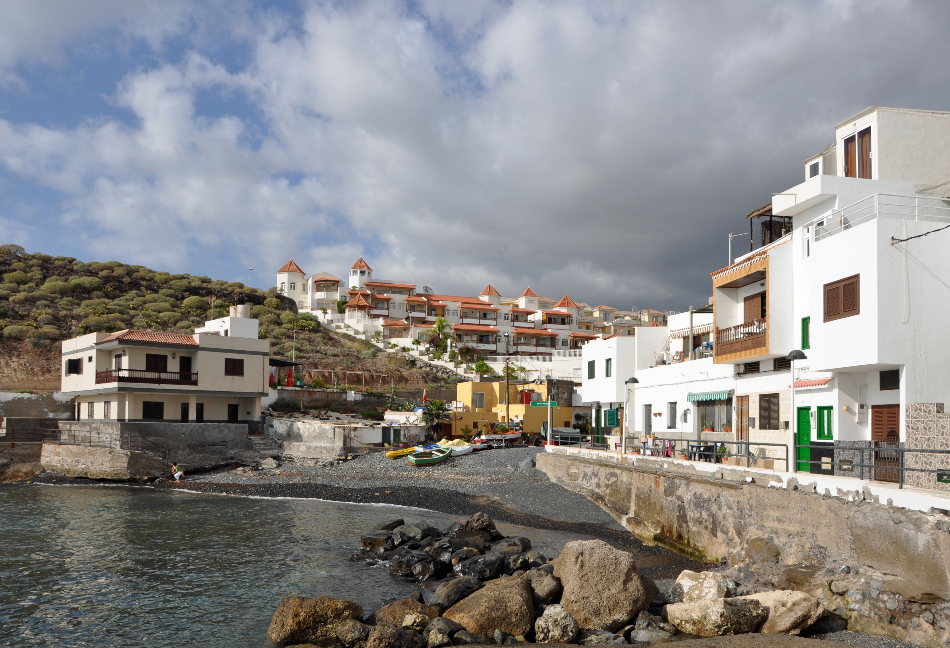 La Caleta (Adeje municipality, Tenerife)